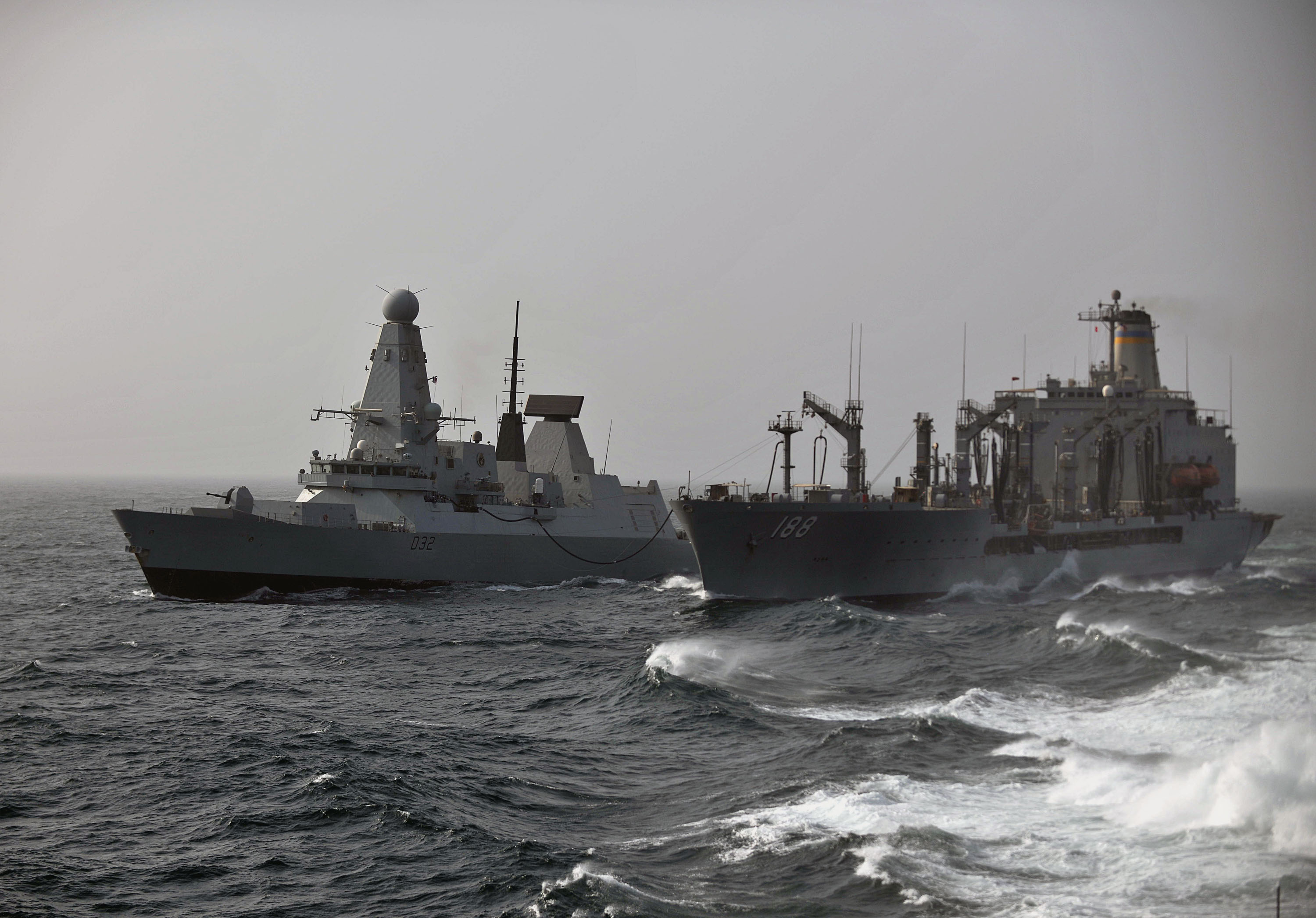 120628-N-WO496-004 GULF OF OMAN (June 28, 2012) British Royal Navy destroyer HMS Daring (D32) performs a replenishment at sea with the Military Sealift Command fleet replenishment oiler USNS Joshua Humphreys (T-AO 188). (U.S. Navy photo by Mass Communication Specialist 2nd Class Alex Forster/Released)